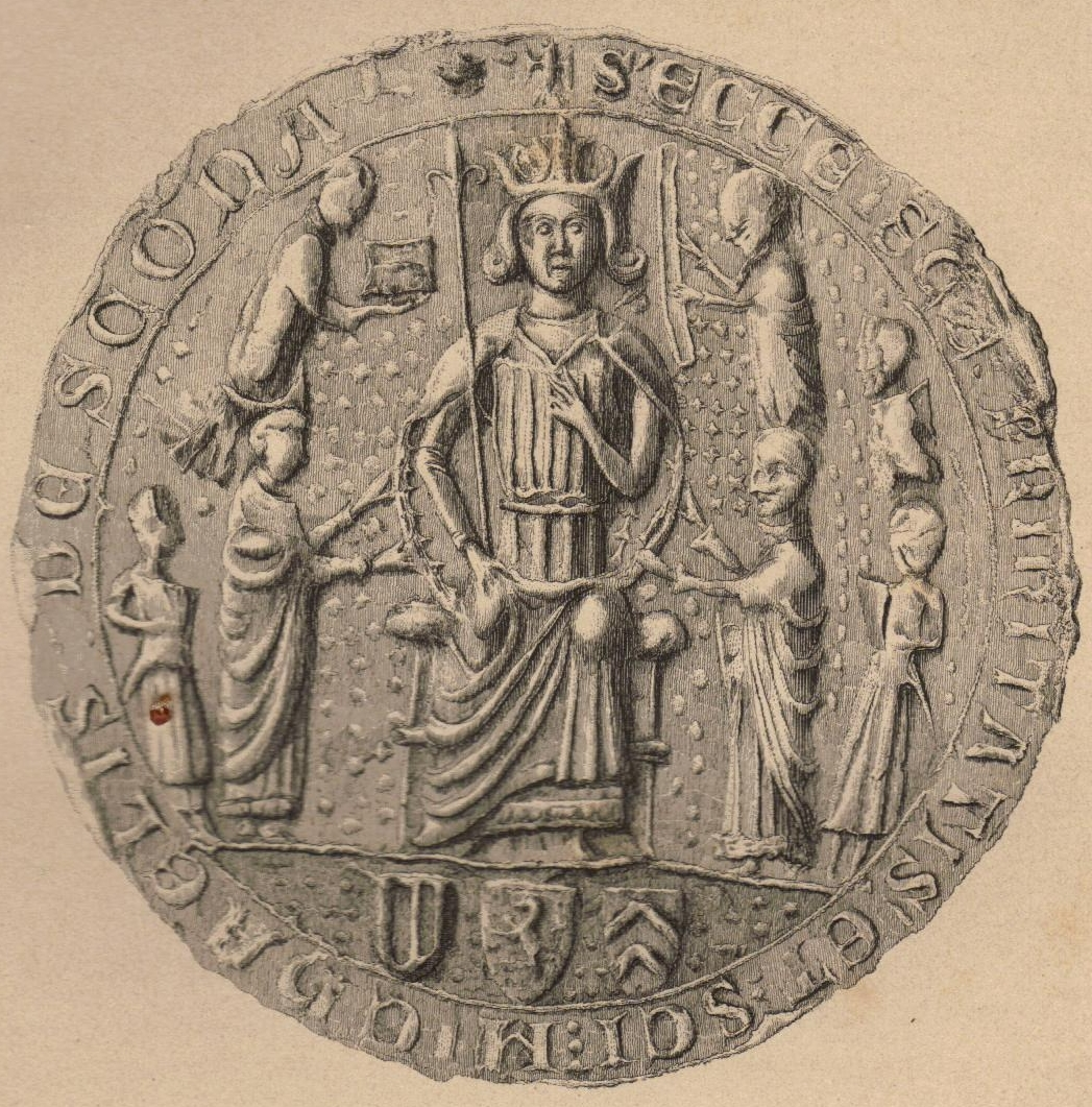 Later High Medieval in date. Taken from Cosmo Nelson Innes (ed.), Liber ecclesie de Scon : monumenta vetustiora monasterii Sancte Trinitatis et Sancti Michaelis de Scon, Bannantyne Club, 58, (Edinburgi, 1843), inside leaf.